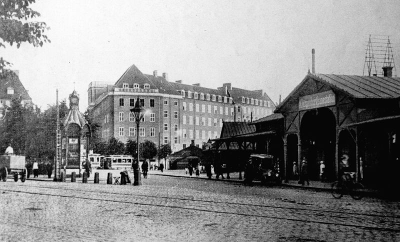 The telephone kiosk at Gyldenløvesgade in Copenhagen, Denmark